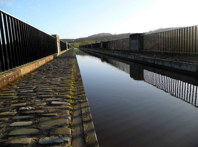 Looking along the Avon Aqueduct on the Union Canal At 250 metres long and 26 metres high the Avon Aqueduct is the longest and highest aqueduct in Scotland, and the second longest in Britain. At the time of its building it was unusual in that it utilised an iron trough to carry the water, rather than heavy masonry.